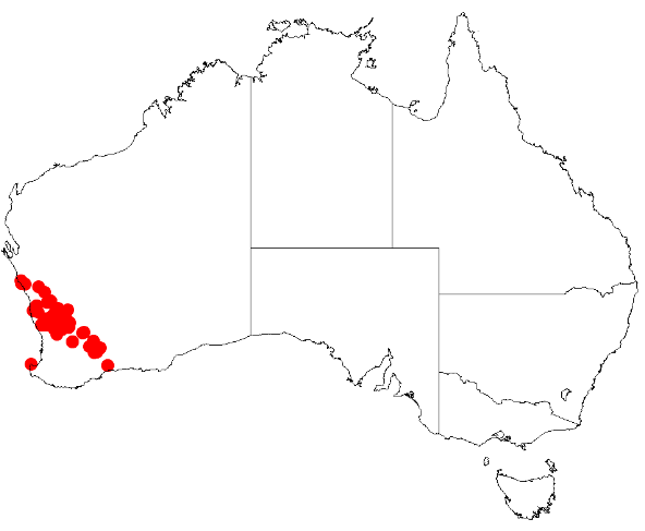 Acacia brumalis Occurrence data from Australasian Virtual Herbarium downloaded from on 8 December 2018